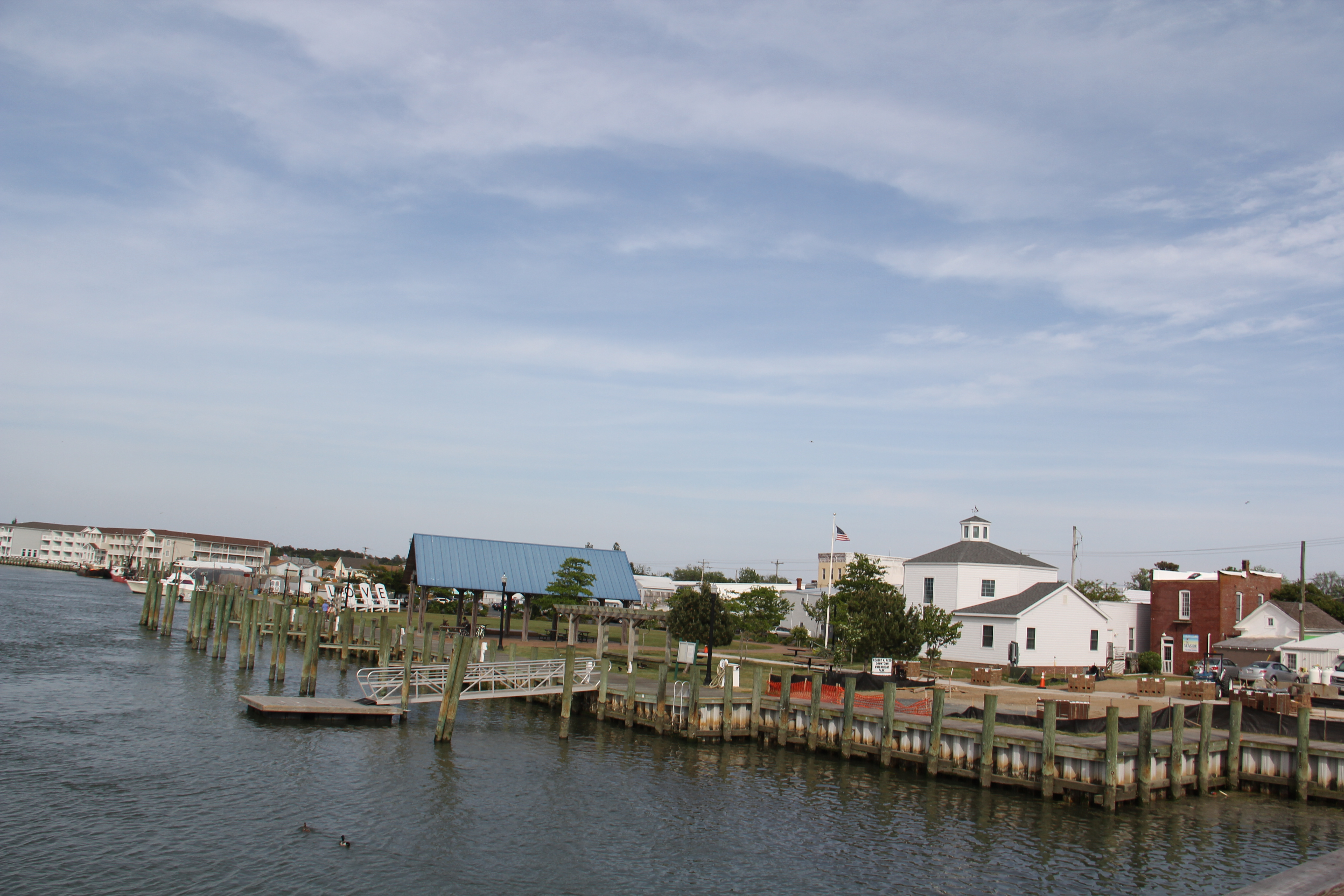 Chincoteague Sights